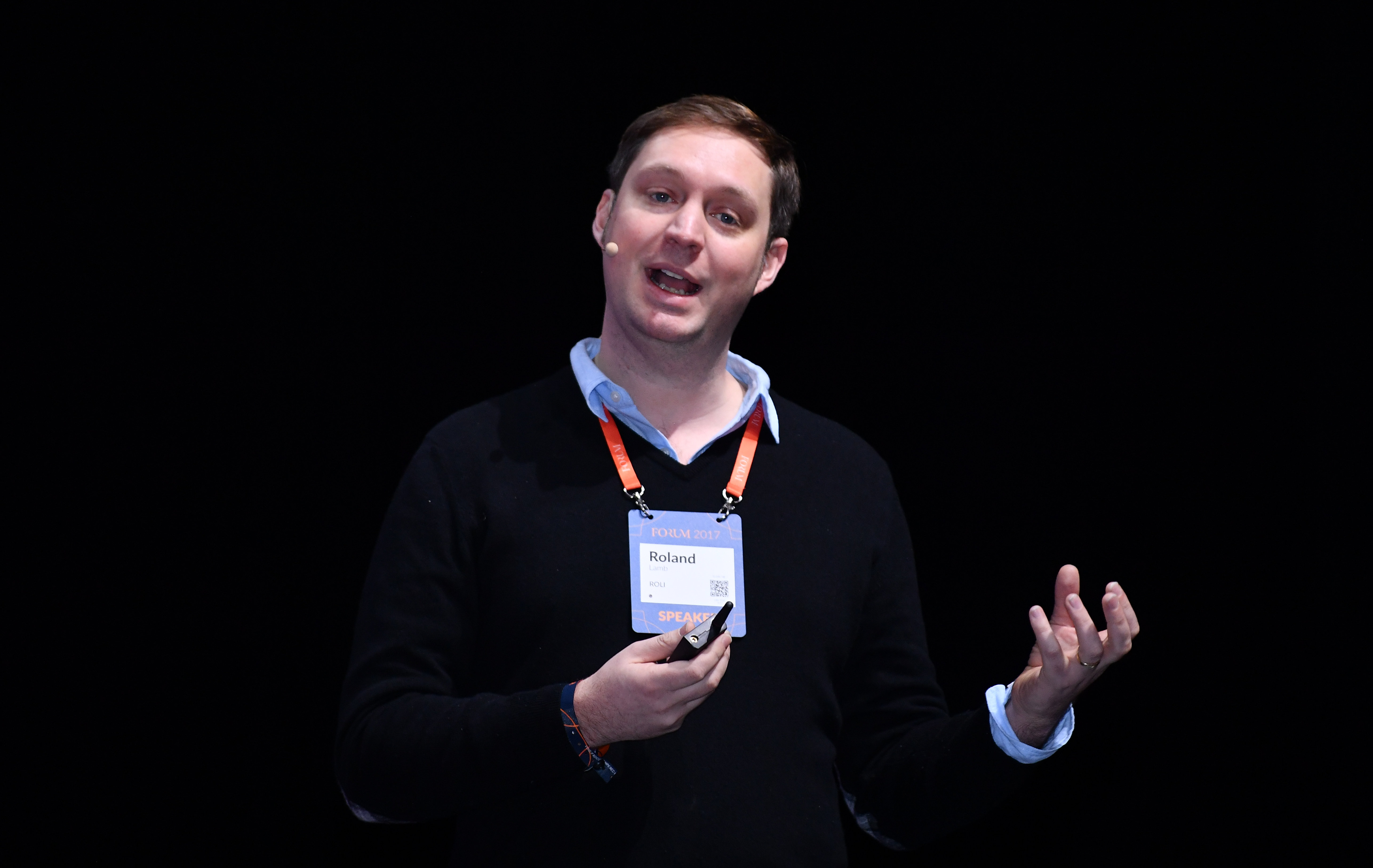 9 November 2017; Roland Lamb, CEO, ROLI, on the MusicNotes Stage during day three of Web Summit 2017 at Altice Arena in Lisbon. Photo by Sam Barnes/Web Summit via Sportsfile